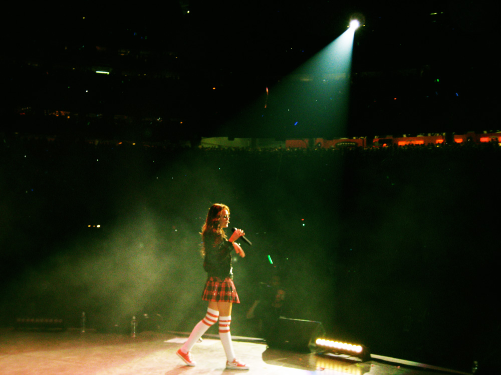 A teen singing.